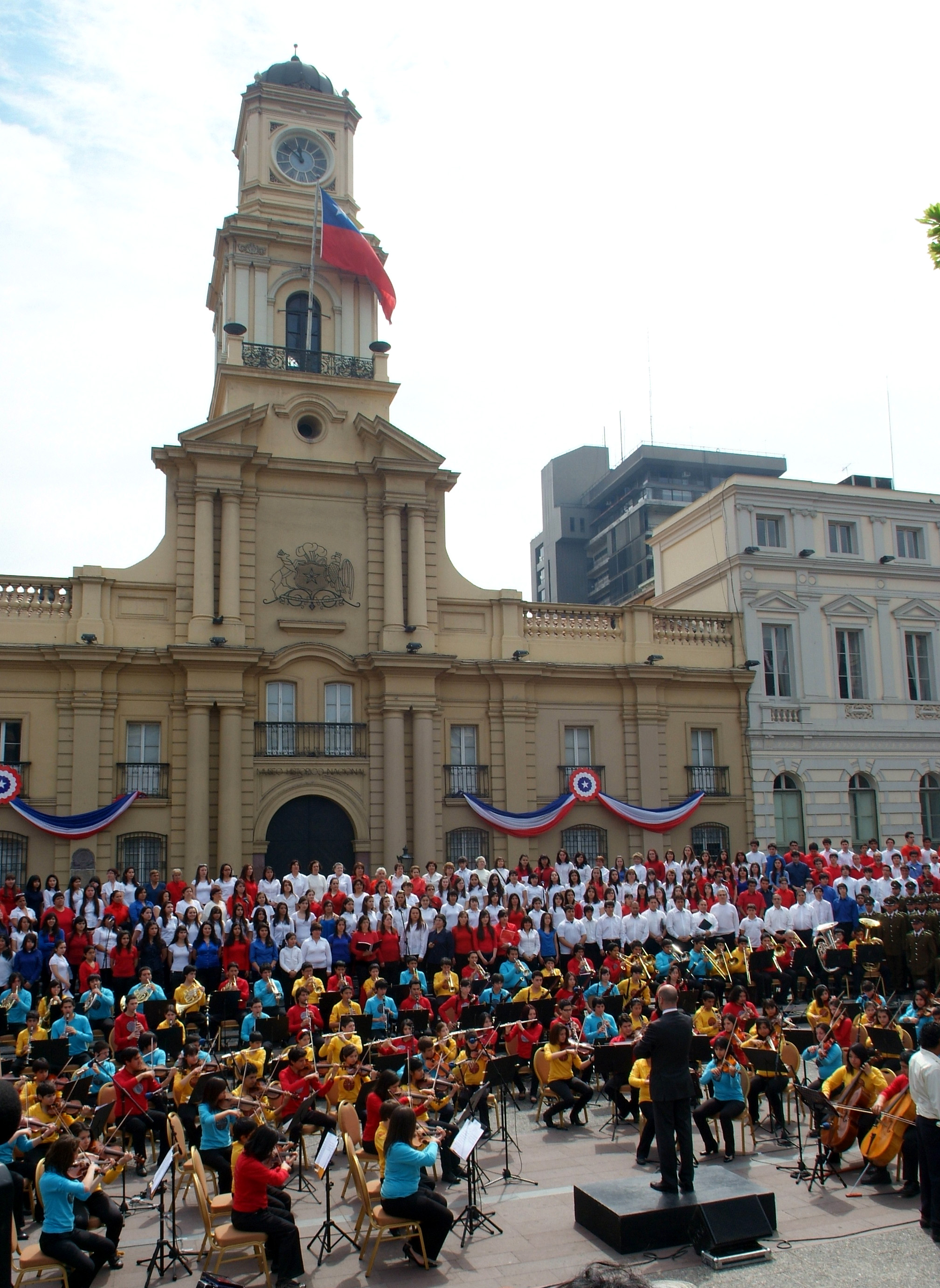 Singing of the Chilean National Anthem in the Bicentennial, in front of the National History Museum of Santiago.